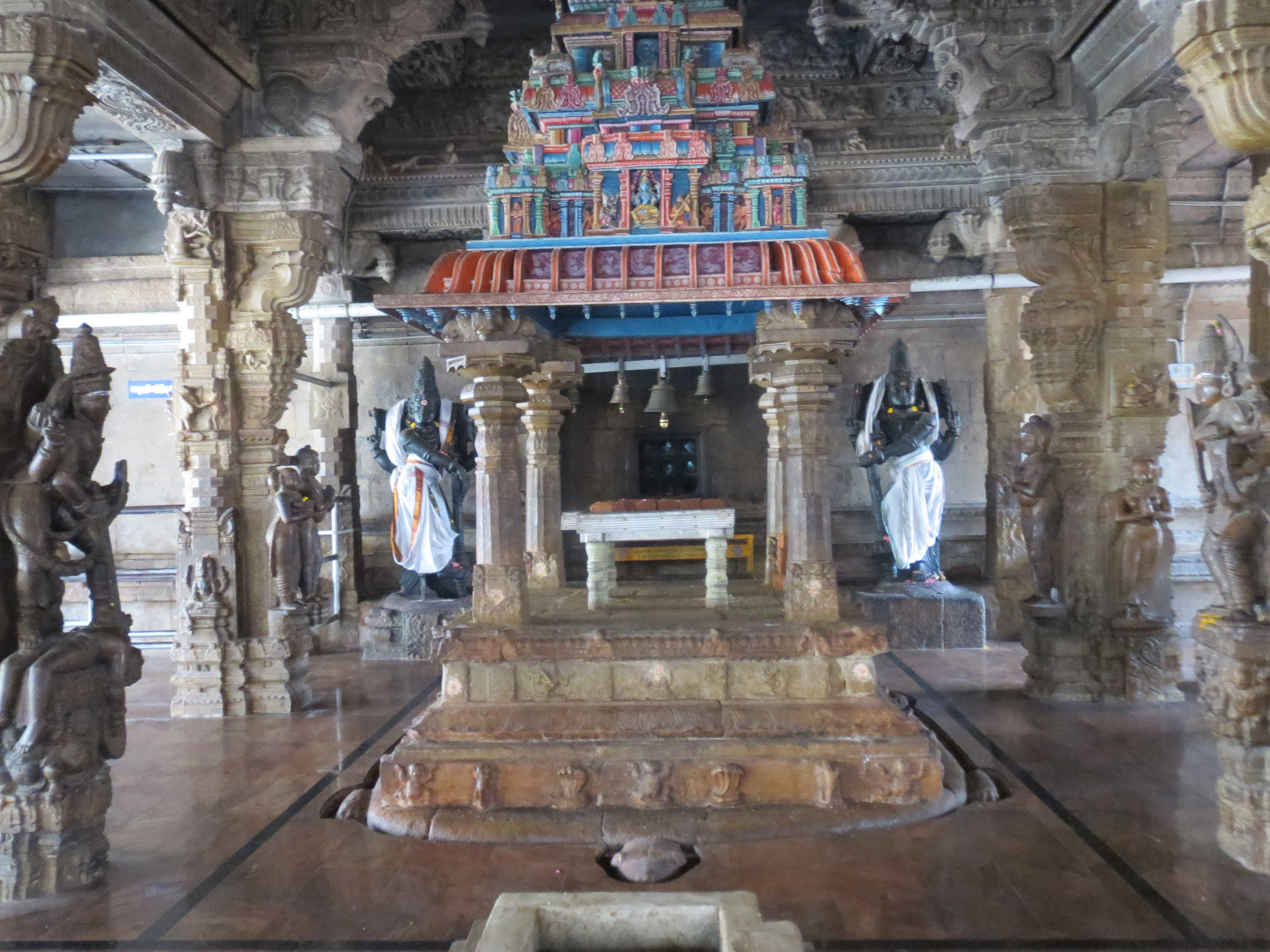 Thiruchengodu Arthanareeswarar Sannidhi-Amai mandapam.